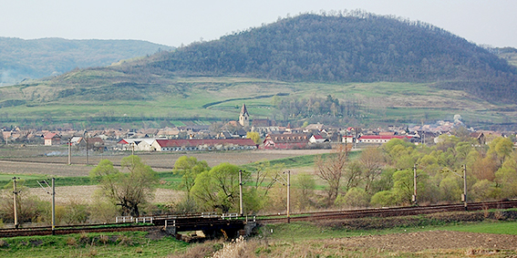 Târnava, Transylvania